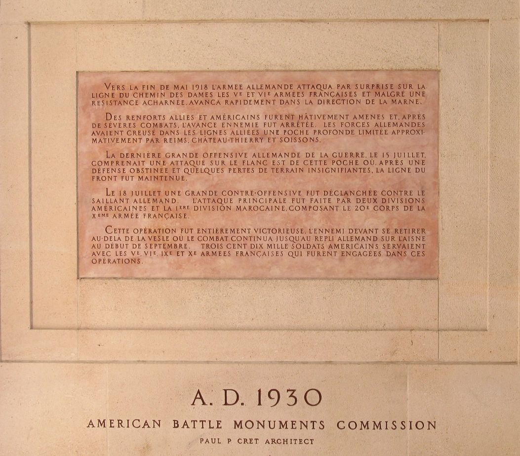 Commemorative text on the American Monument of Château-Thierry. Describe the operations during the Battle of Château-Thierry (1918).